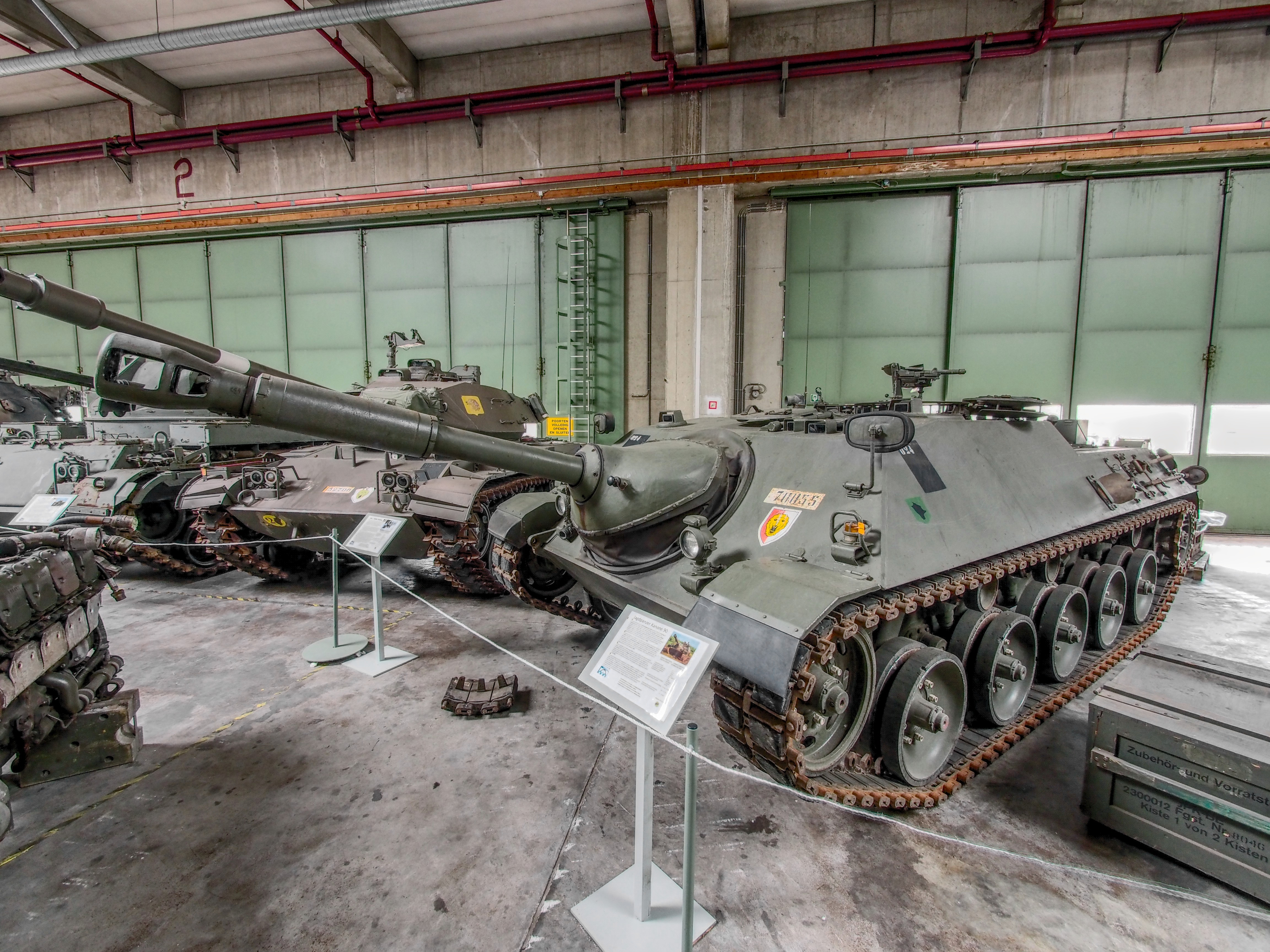 Photographed at the Gunfire Artilleriemuseum Brasschaat, Belgium.